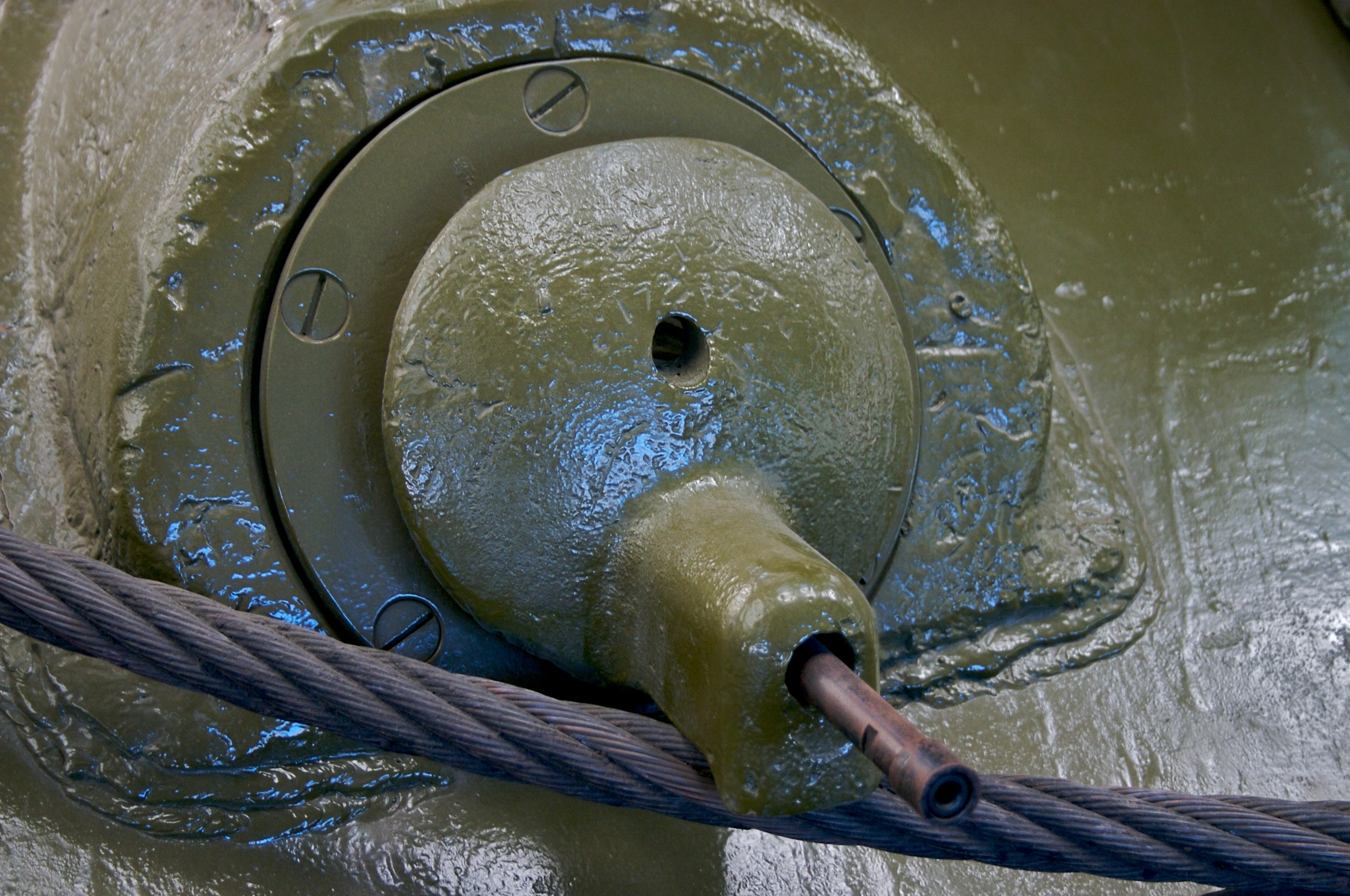 An armored machinegun DT/DTM port mounted on the front hull of a WW2 Soviet T-34 tank.